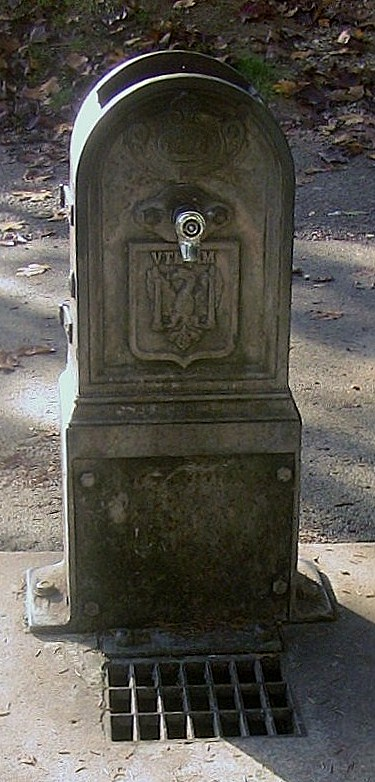 Fountain of Epoisses, located in the area of Planoise, in Besançon (Doubs, France)